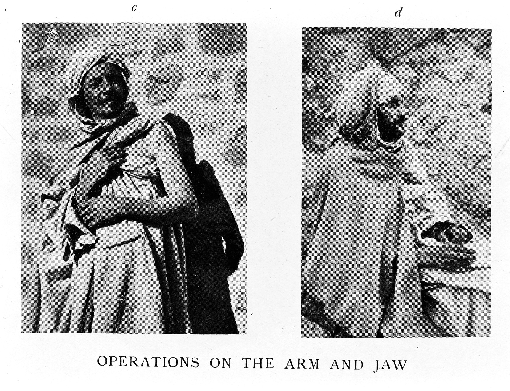 Operation scars on the arm and jaw General Collections Keywords: Anthropology; scars; algerian medicine